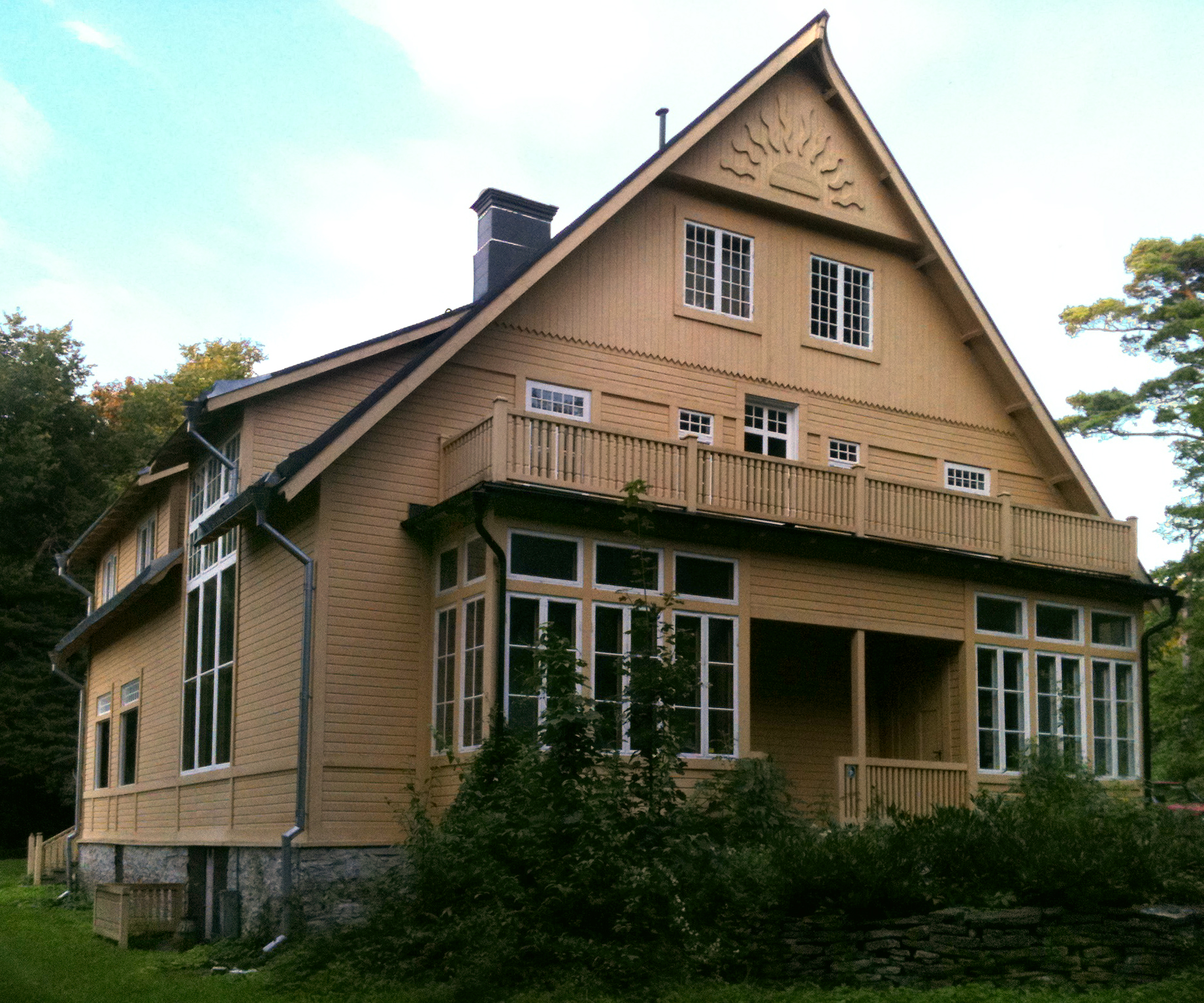 Brucebo artist´s home atelier exterior.